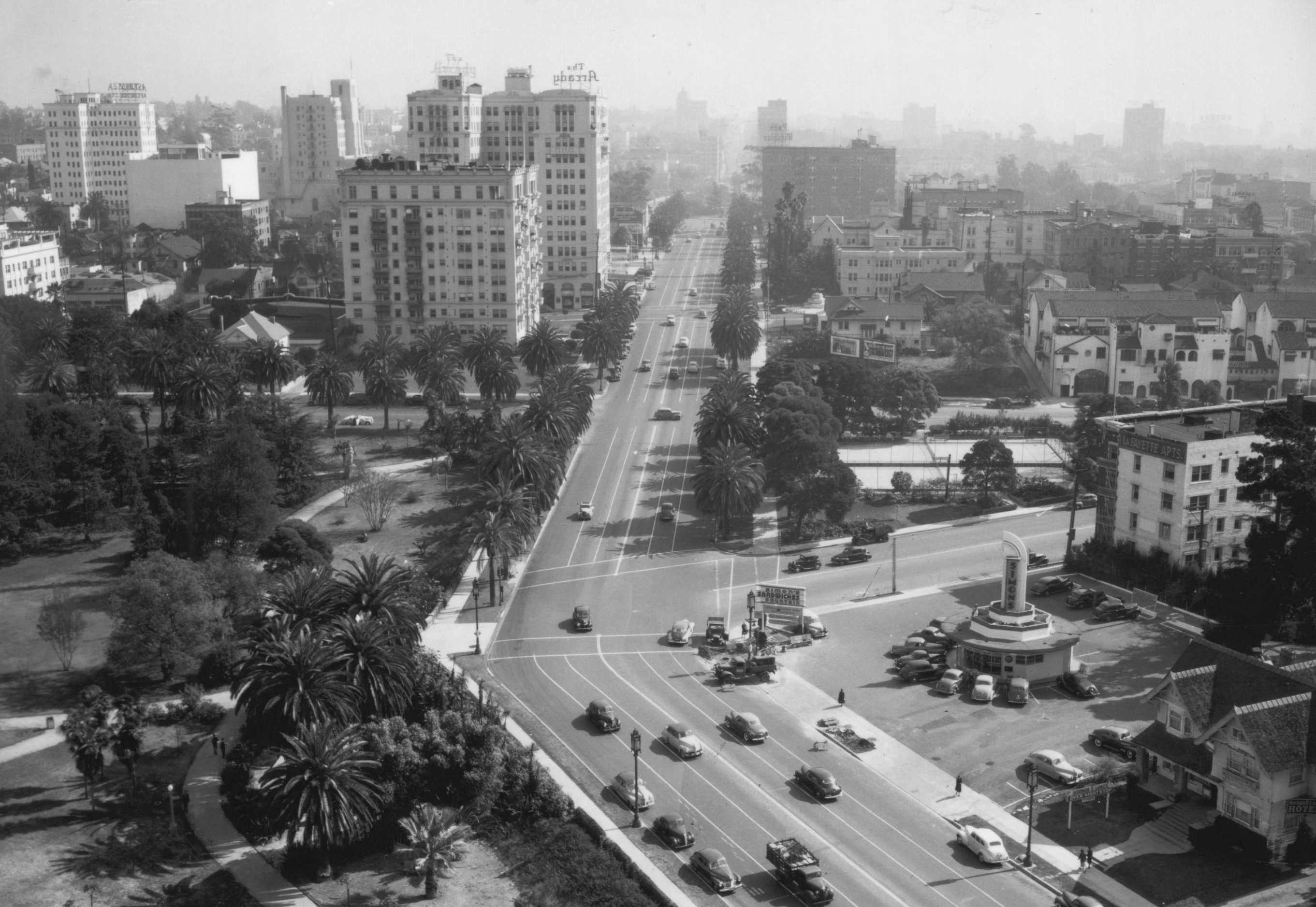 A photograph taken in Los Angeles, California, near Commonwealth Avenue, facing Wilshire Boulevard, and towards the east. Lafayette Park is visible on the left. The picture is dated 1945.